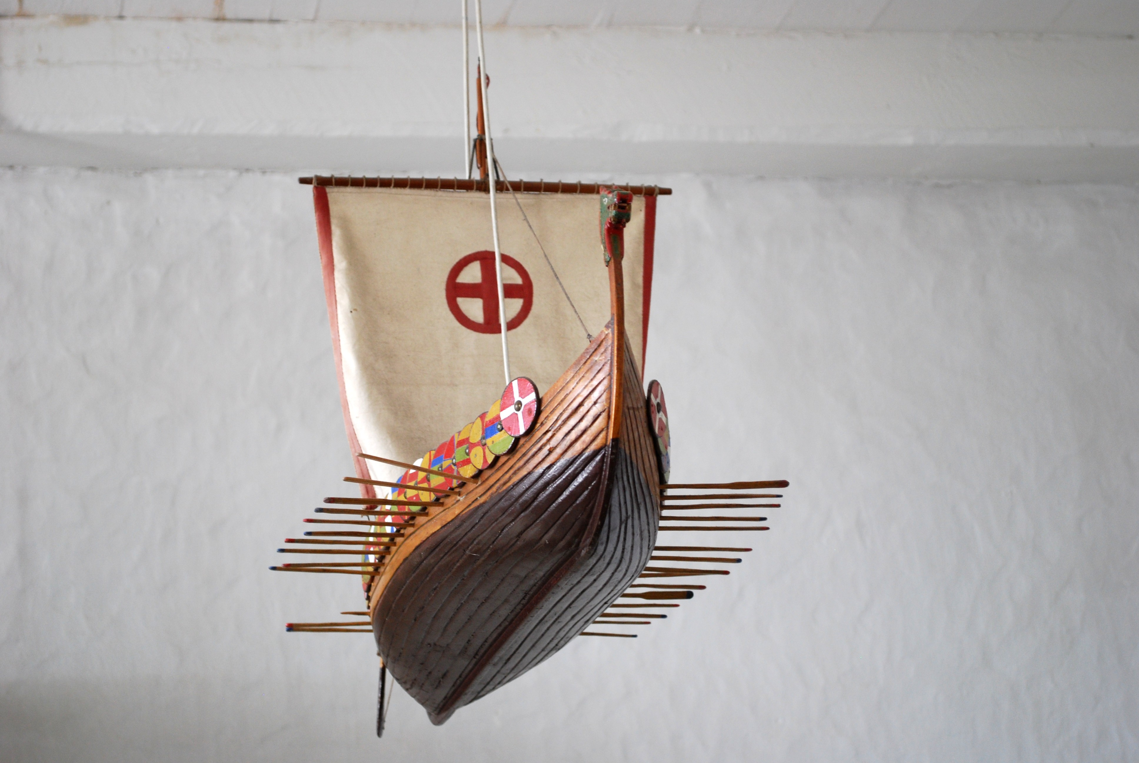 Church ship - Church of Hjarnø - Denmark